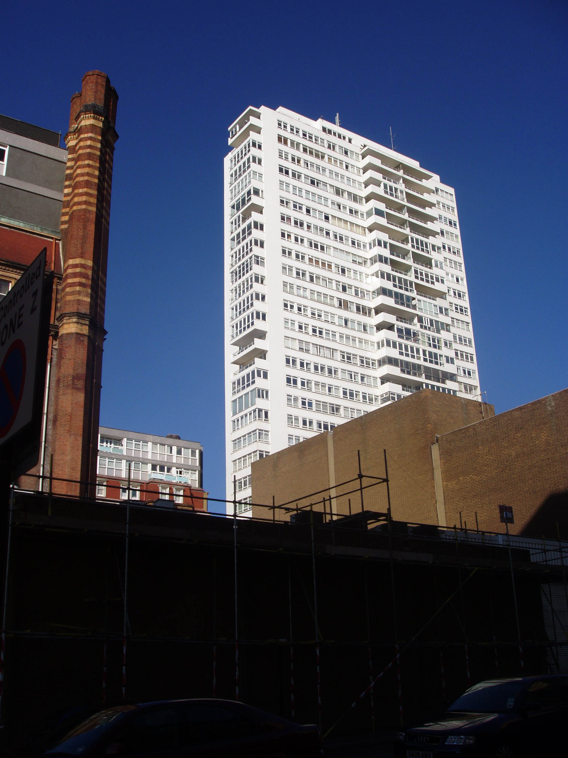 Sussex Heights, Brighton, UK. By architect Richard Seifert (1968)